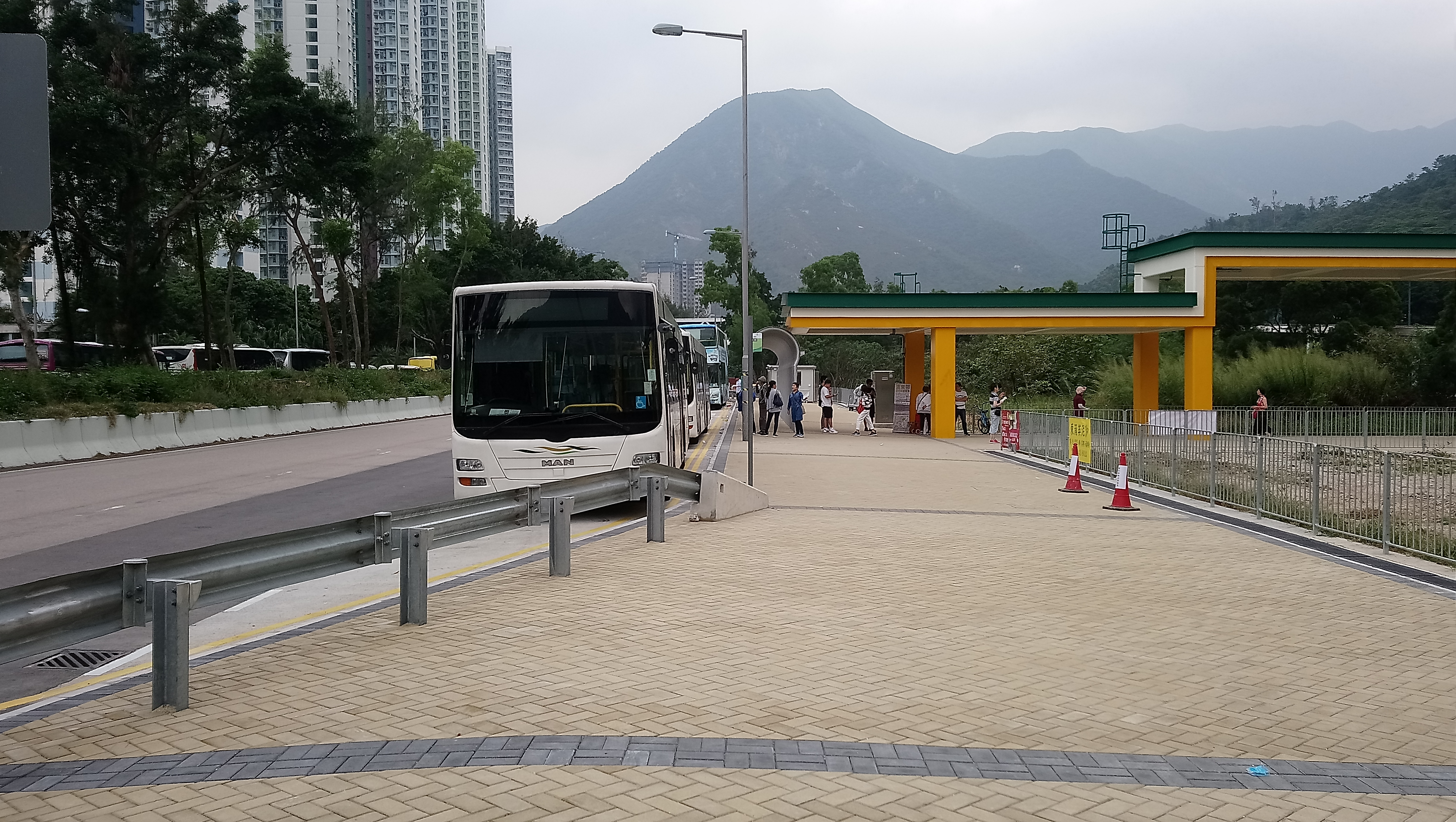 Mun Tung Estate Bus Terminus, Tung Chung, Hong Kong.